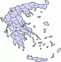 locator map, based on Image:Prefectures Greece grey.png